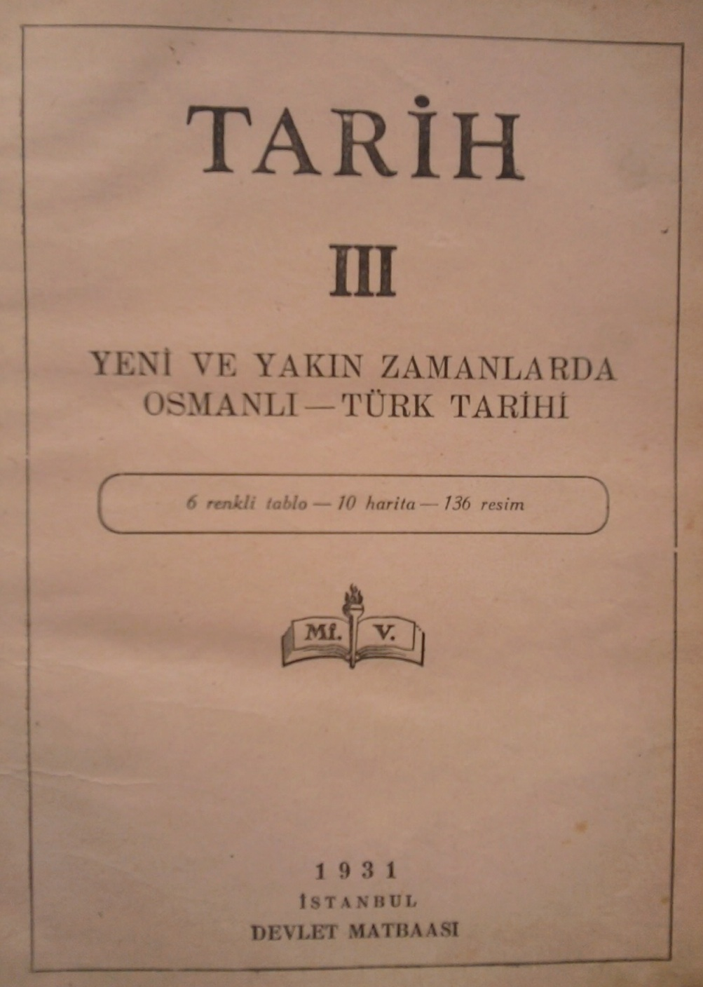 It is a cover photo of the History textbook Vol. III, the Republic of Turkey, 1931.